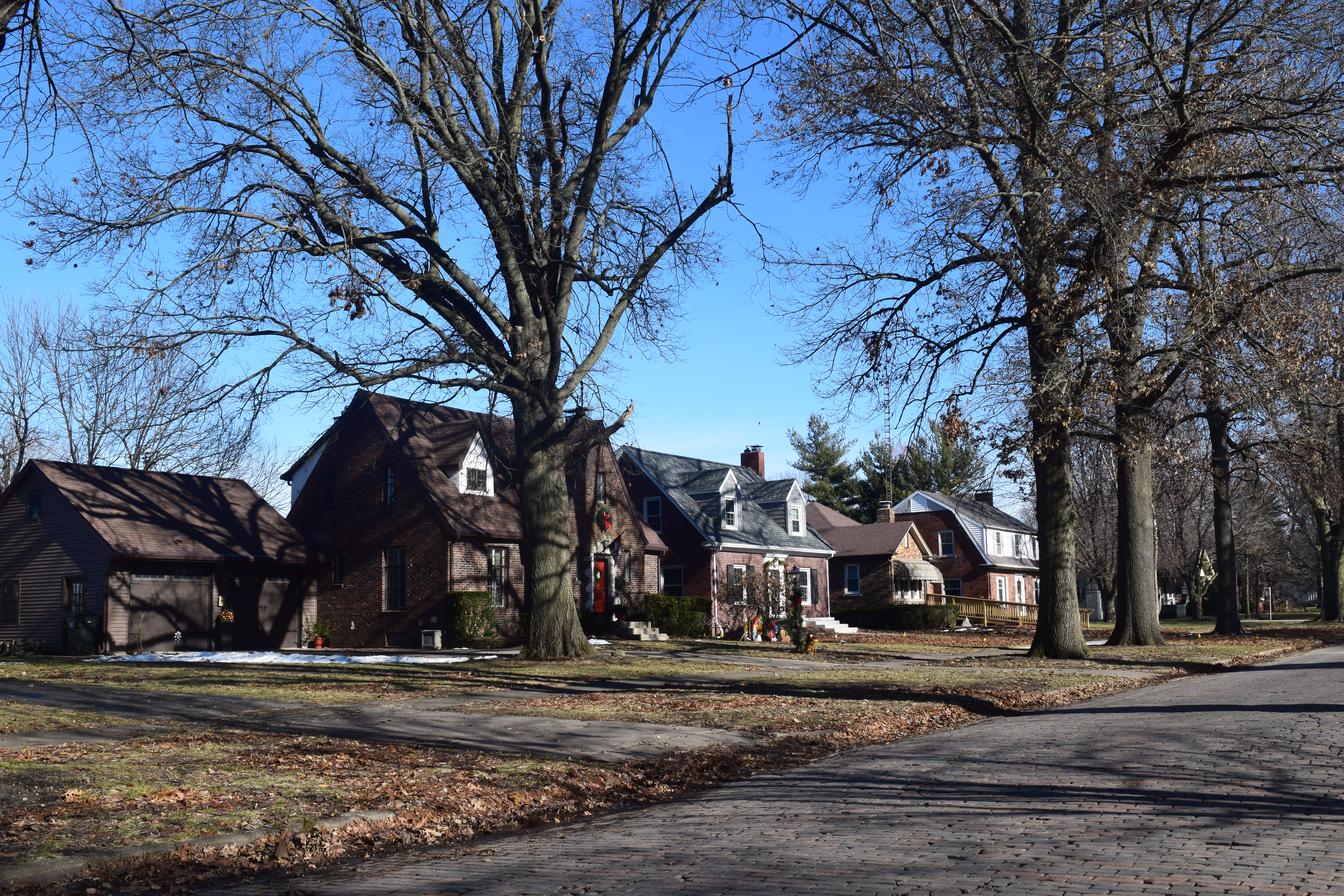 Homes on Wabash Avenue in the Lumpkin Heights neighborhood of Mattoon, Illinois. The houses are part of the Lumpkin Heights and Elm Ridge Subdivision Historic District, which is on the National Register of Historic Places.